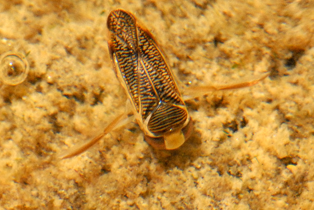 Sigara nigrolineata from Commanster, Belgian High Ardennes .